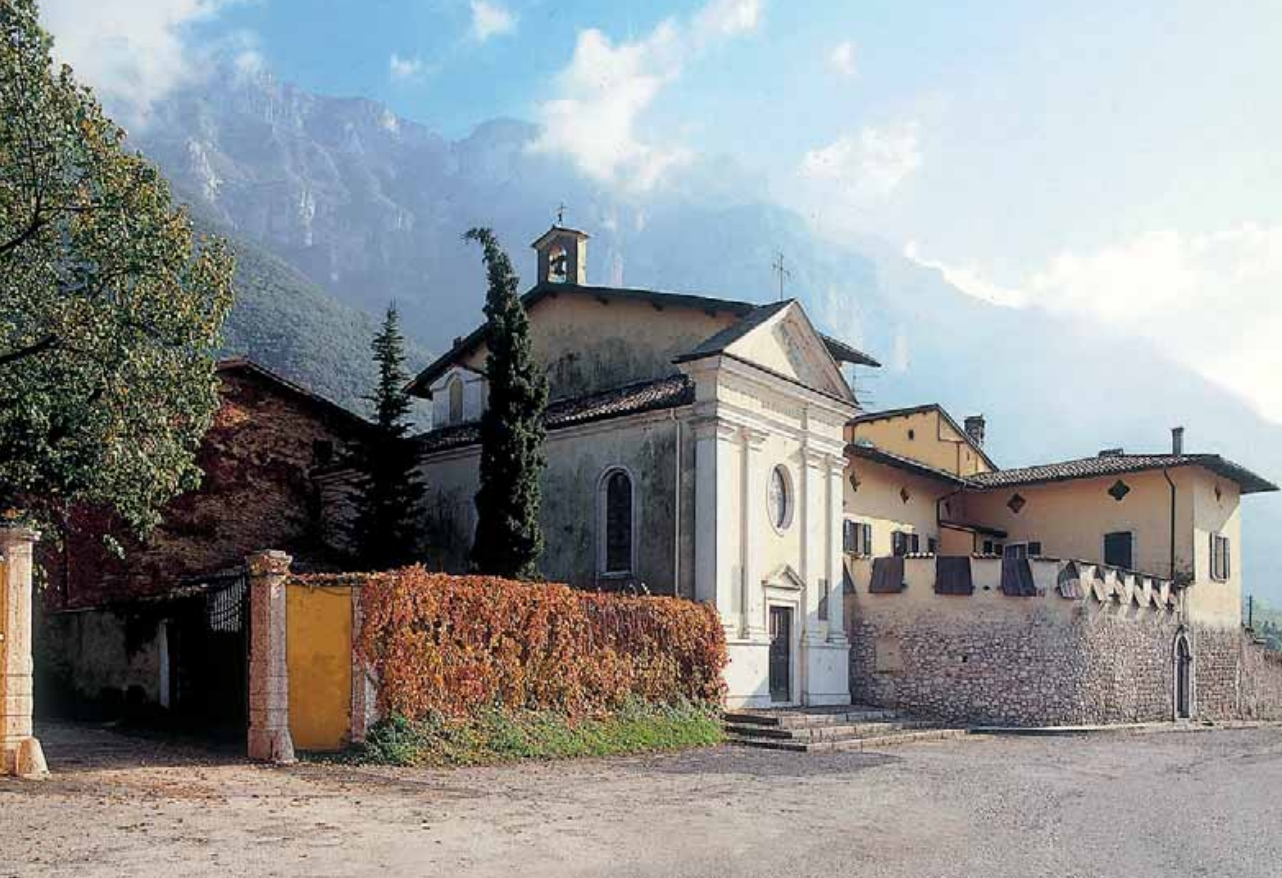 The church of San Leonardo and outer wall